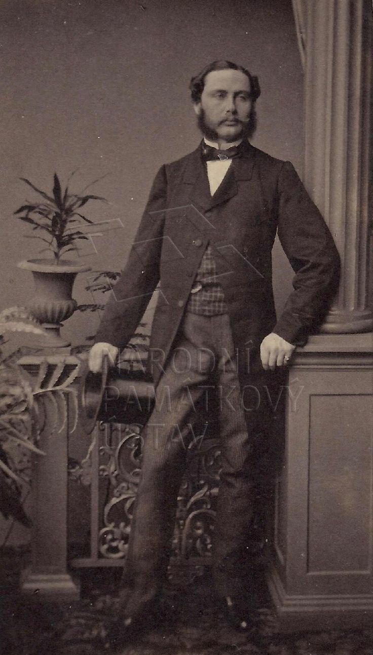 Maximilian Anton Lamoral, Hereditary Prince of Thurn and Taxis (1831–1867), spouse of Duchess Helene in Bavaria (1834–1890)